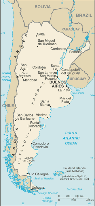 Argentina map from CIA World Factbook, converted from original GIF format. This map violates legal regulations Argentina: Ley de la Carta [Law No. 22963].